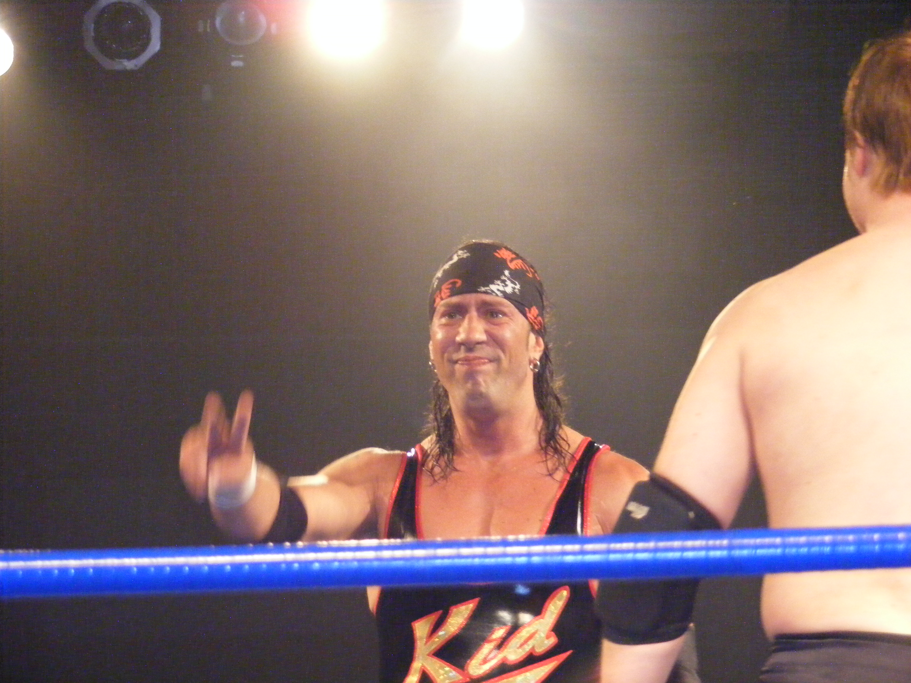 Professional wrestler Sean Waltman at Chikara King of Trios 2011.